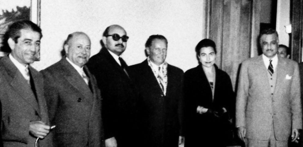 President Gamal Abdul Nasser and Yugoslavian President Josip Tito in Aleppo in 1959 / From left to right: United Arab Republic Vice President Akram al-Hawrani, the Aleppo industrialist Sami Saem al-Daher, director of Egyptian Intelligence Salah Nasr, President Josip Tito, his wife Jovanka Broz, President Gamal Abdul Nasser. The photo was taken in the home of Sami Saeb al-Daher, who was nationalized by President Nasser and left in bankrupcy in 1960